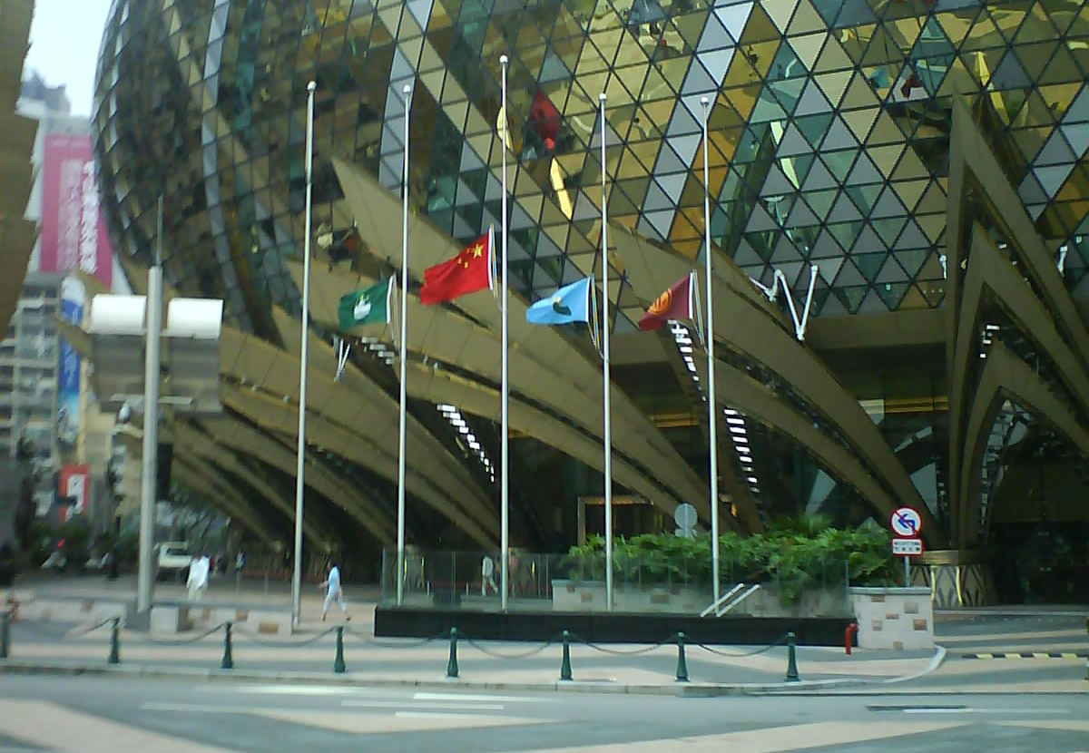 Flags of People's Republic of China, Macau SAR, S.J.M. and Grand Lisboa in Grand Lisboa was flying at half-staff for mourning victims killed in the Sichuan Earthquake at May 19, 2008.